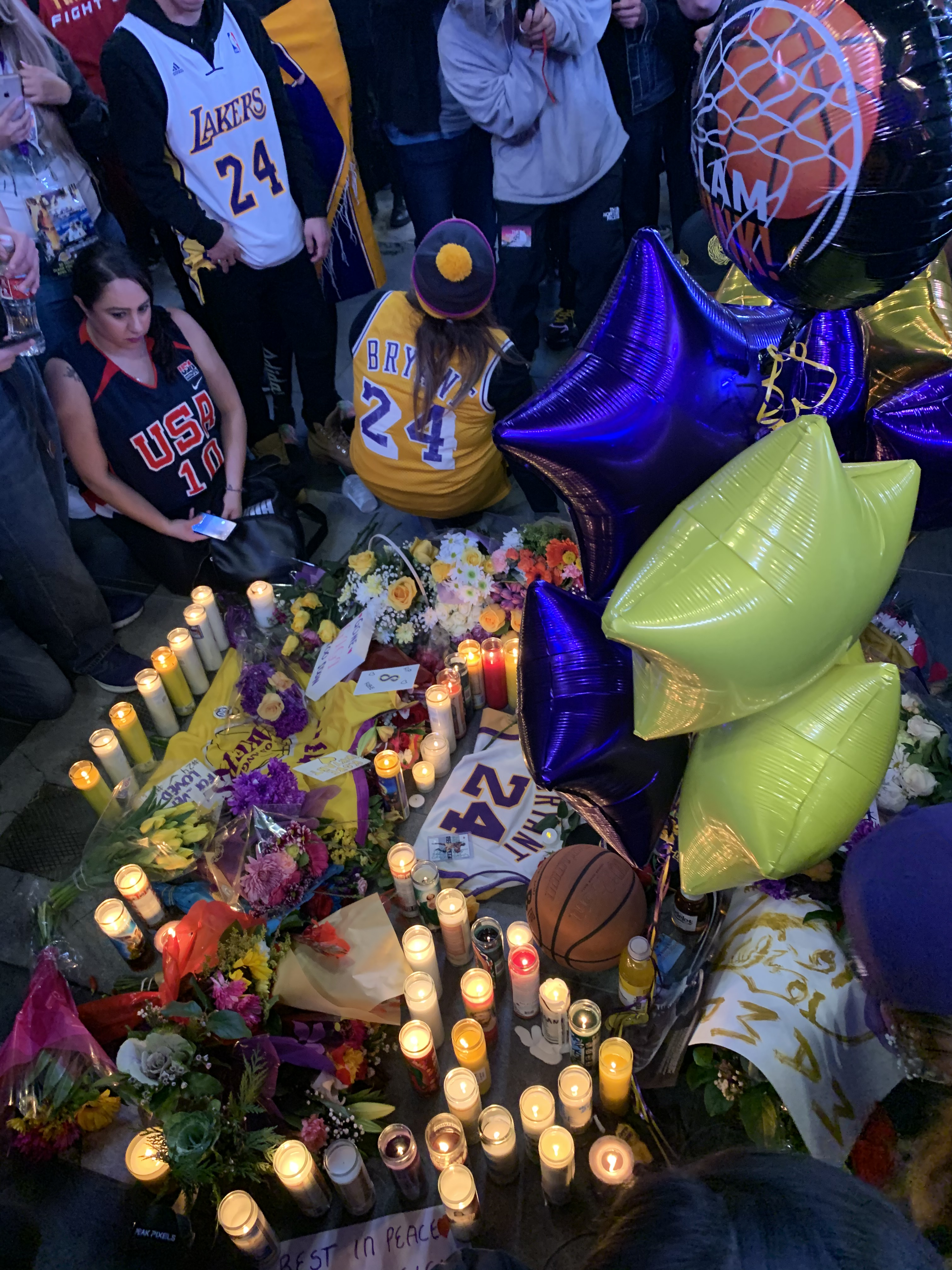 As Kobe Bryant passed away in a tragic helicopter crash, fans quickly gathered in front of the Staples Centre to show their grieving and appreciation.